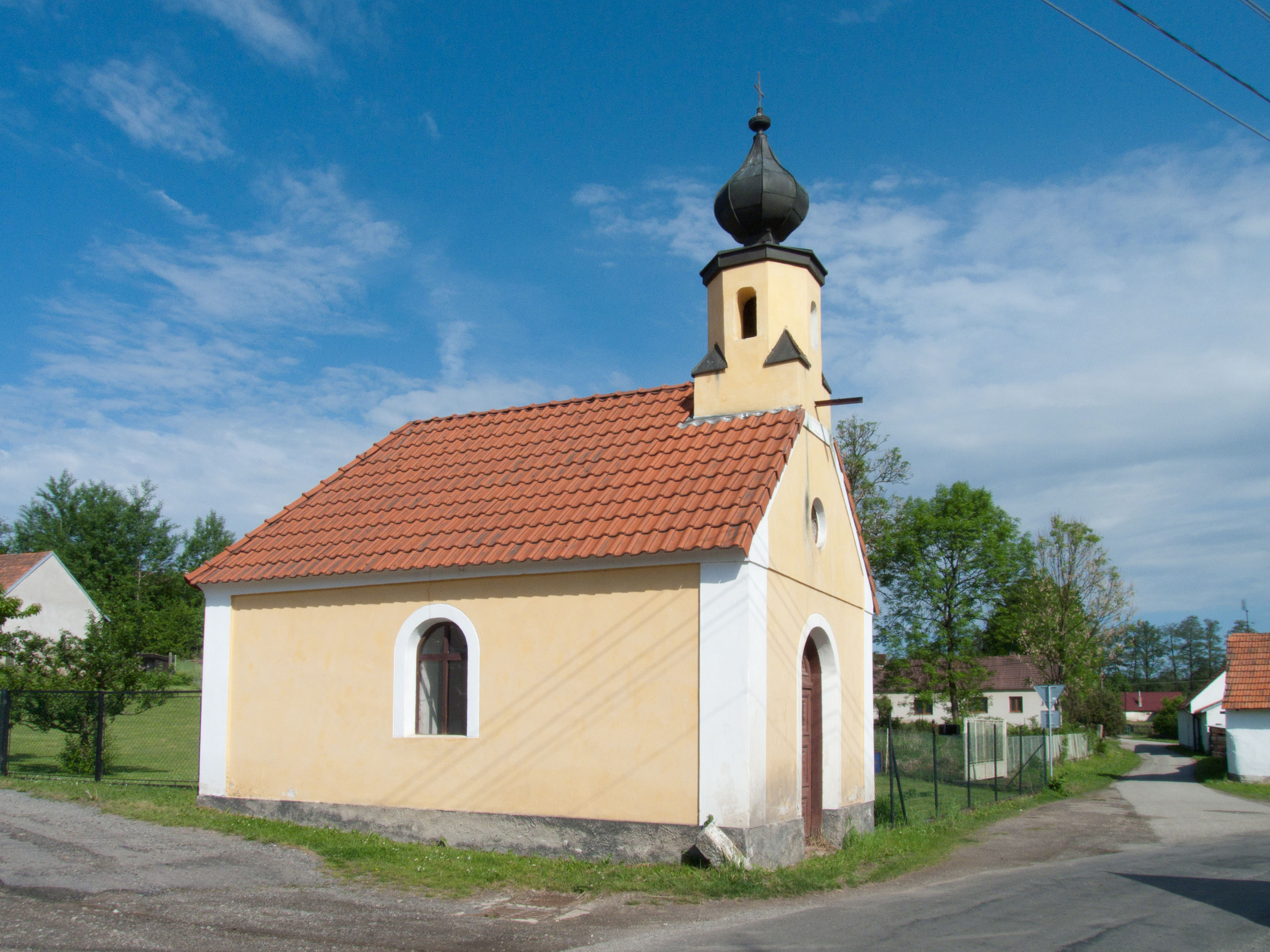 Saint Adalbert Chapel in the village of Dvorce, Tábor District, Czech Republic.